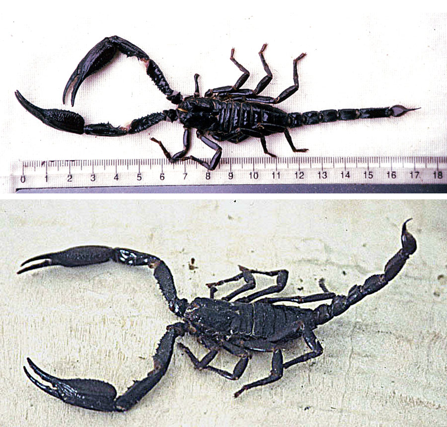 This is the long-armed version of the Giant (or Asian) Forest Scorpion. Photo from central Sumatra. In context at